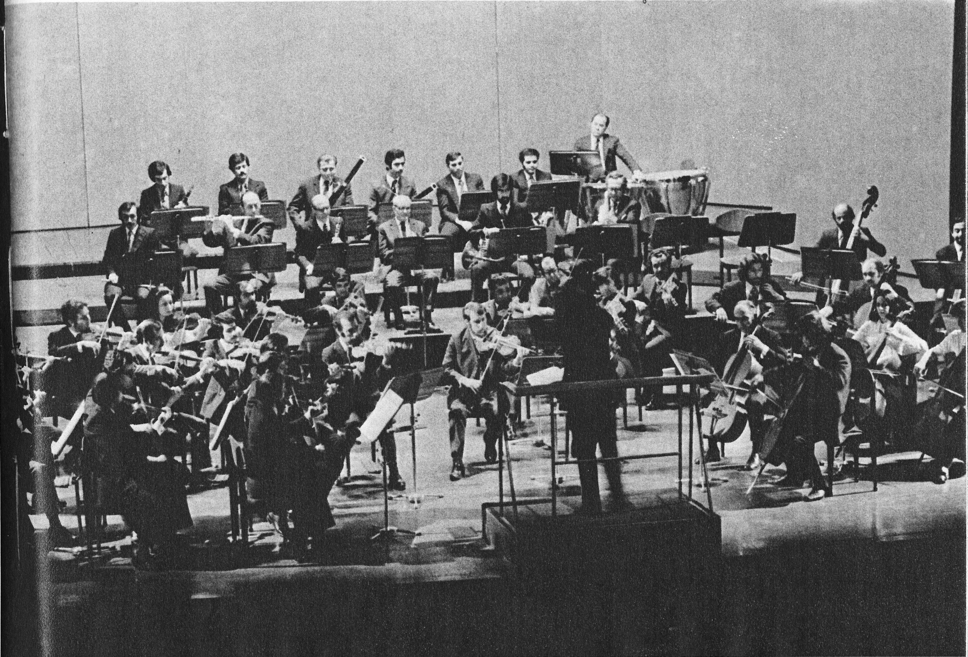 Tehran Philharmonic Orchester